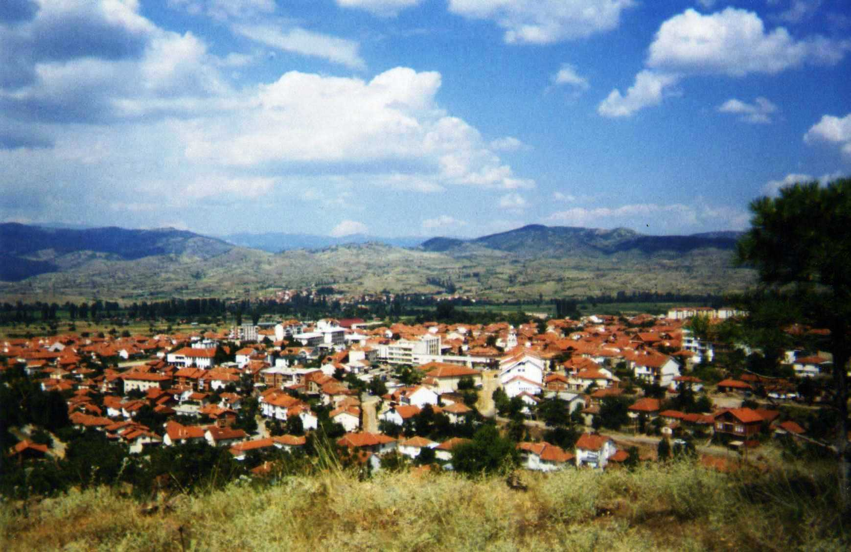 Vinica, view from from Viničko kale